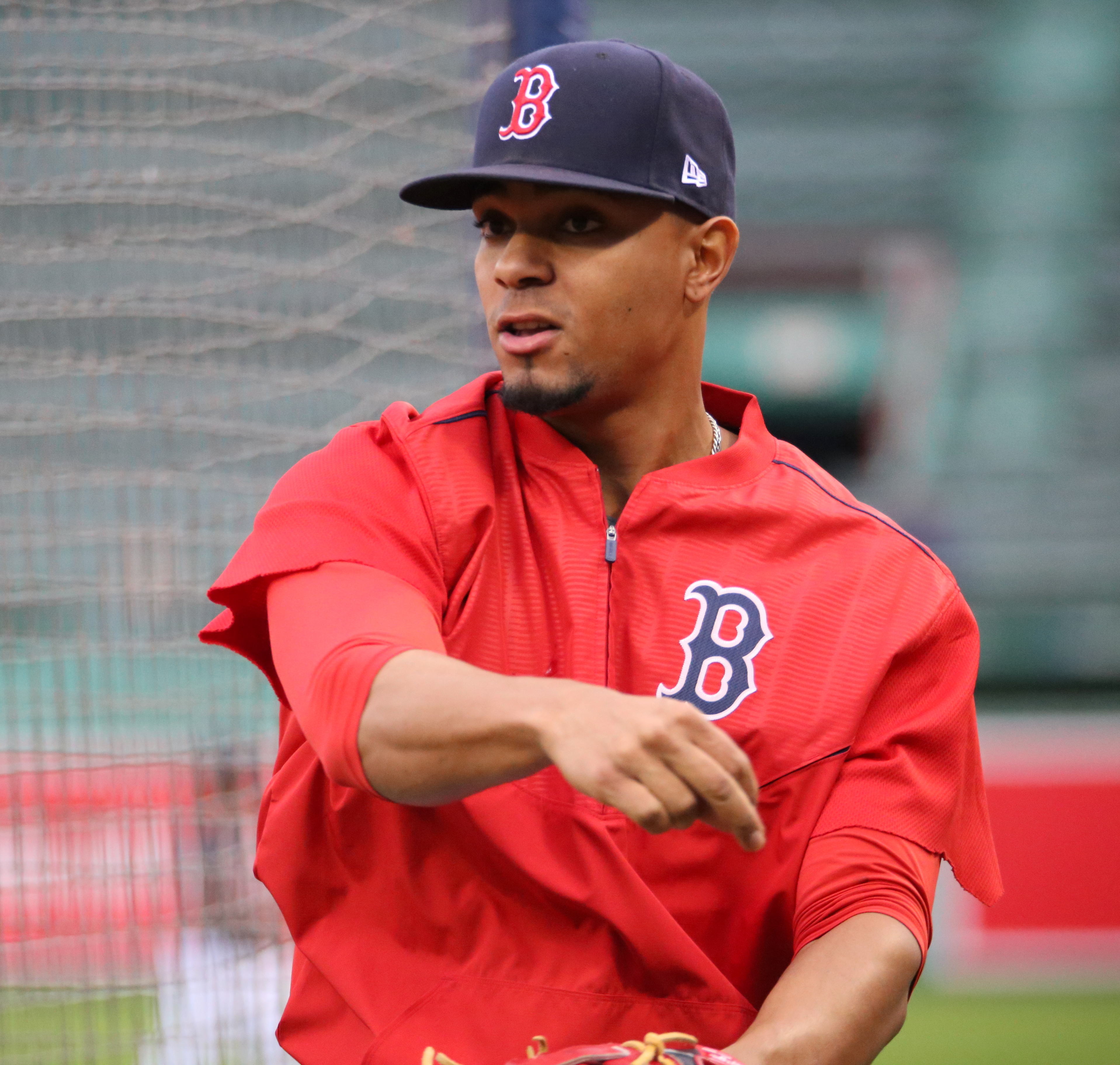 Red Sox shortstop Xander Bogaerts works out at Fenway Park.